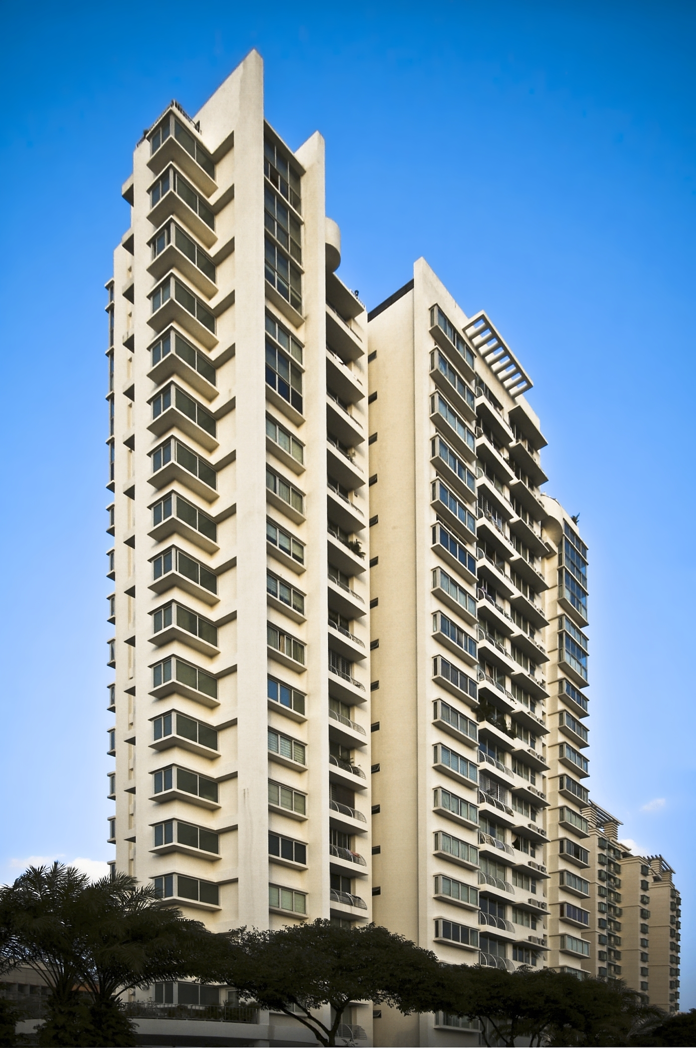 Golden Heights condominium, Singapore.